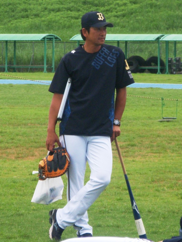 Satoshi Komatsu at Tokyo Yakult Swallows Toda Baseball Ground